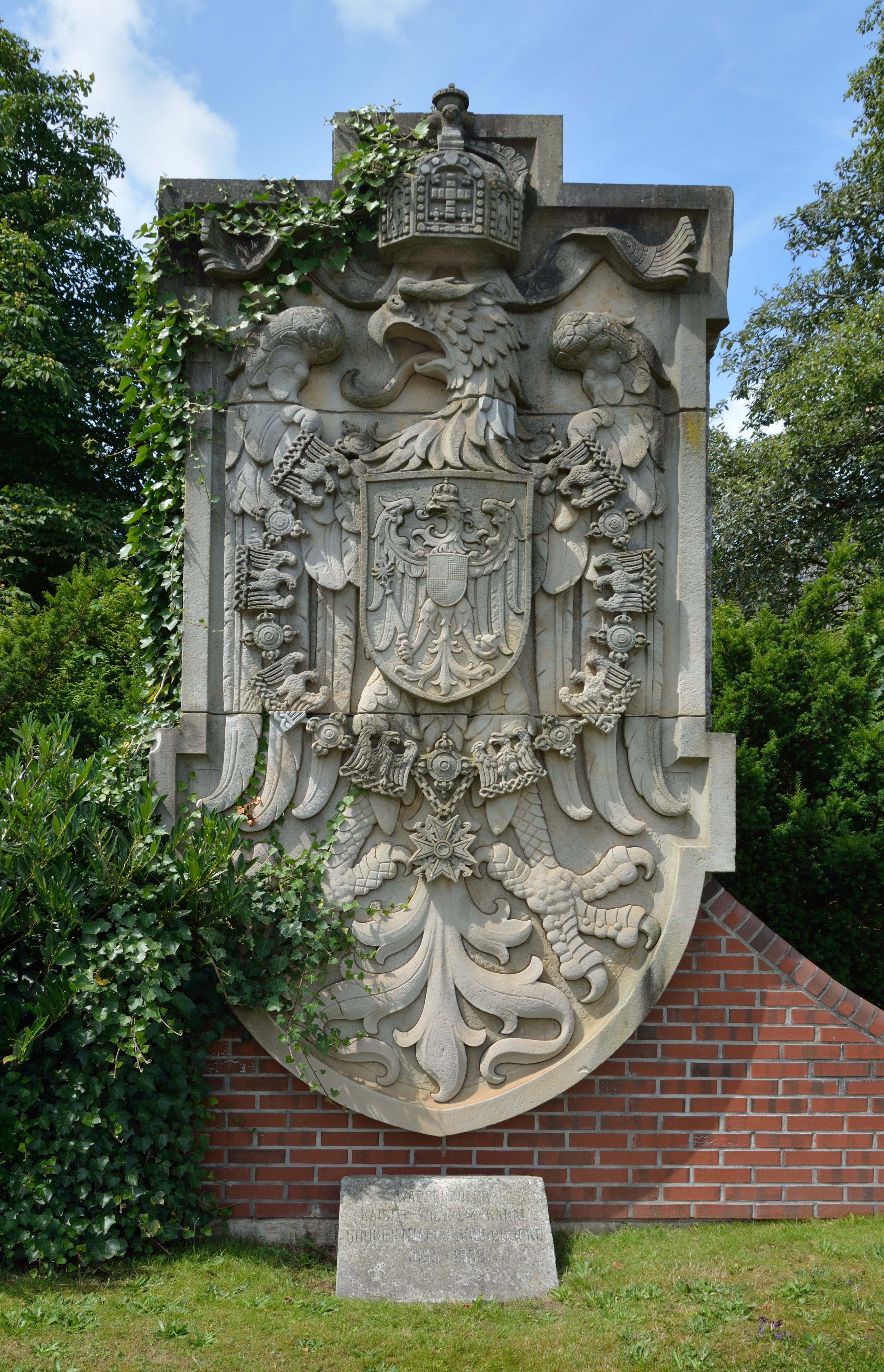 At the monument of the old Grünentaler Hochbrücke